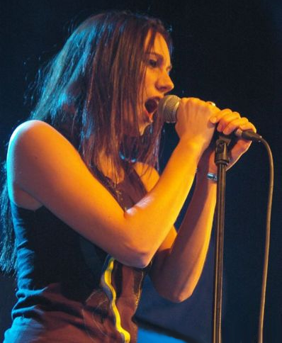 Lauren Harris at Transbordeur in Lyon.